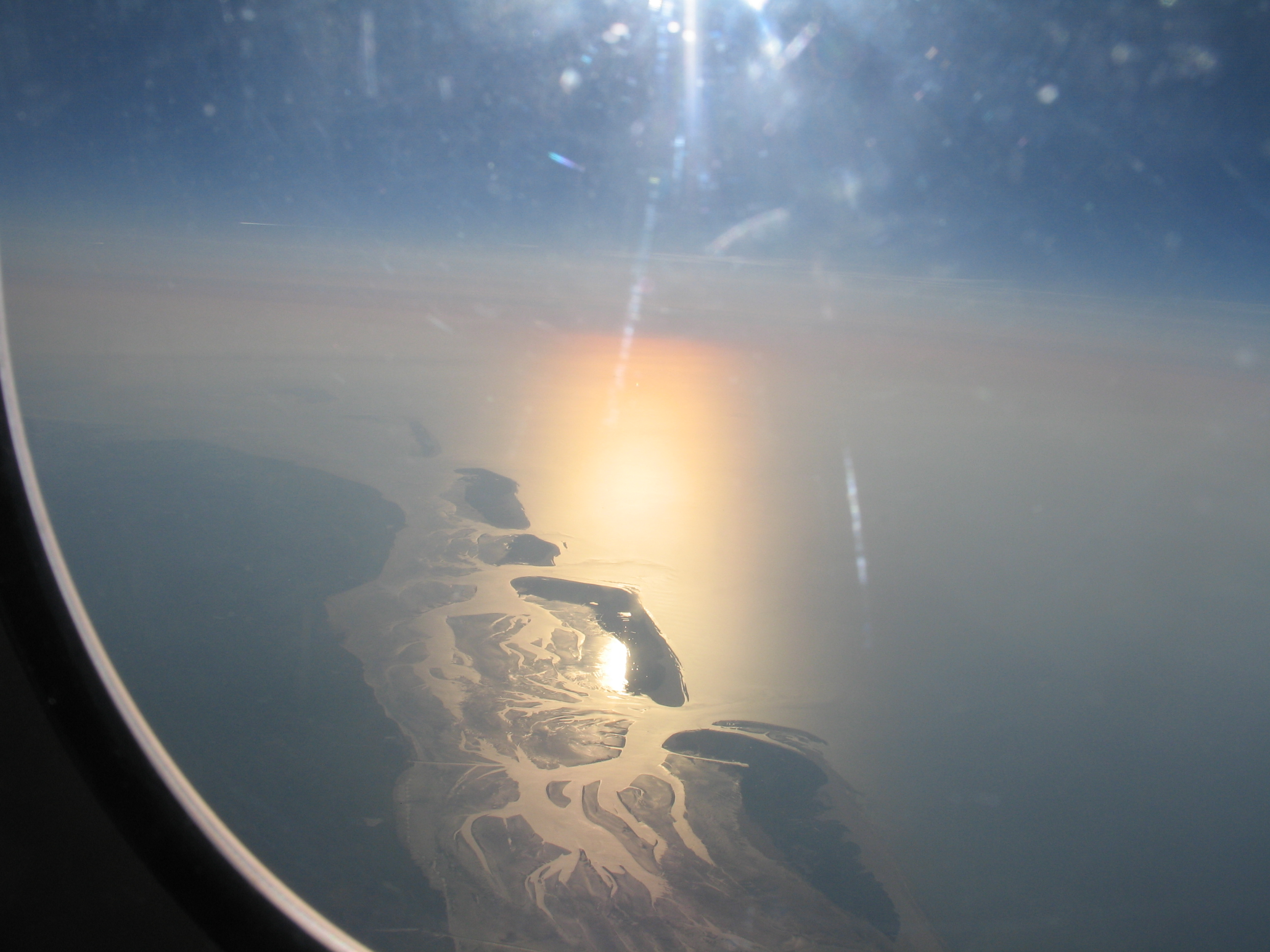 The German island of Langeoog viewed from a flight from CDG to CPH, May 2006